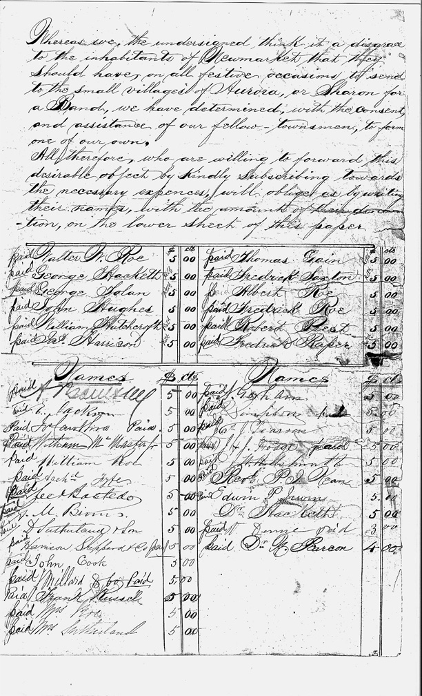 The first of three pages of the 1872 petition circulated in Newmarket, Ontario, Canada to raise funds for the establishment of the Newmarket Citizens' Band.